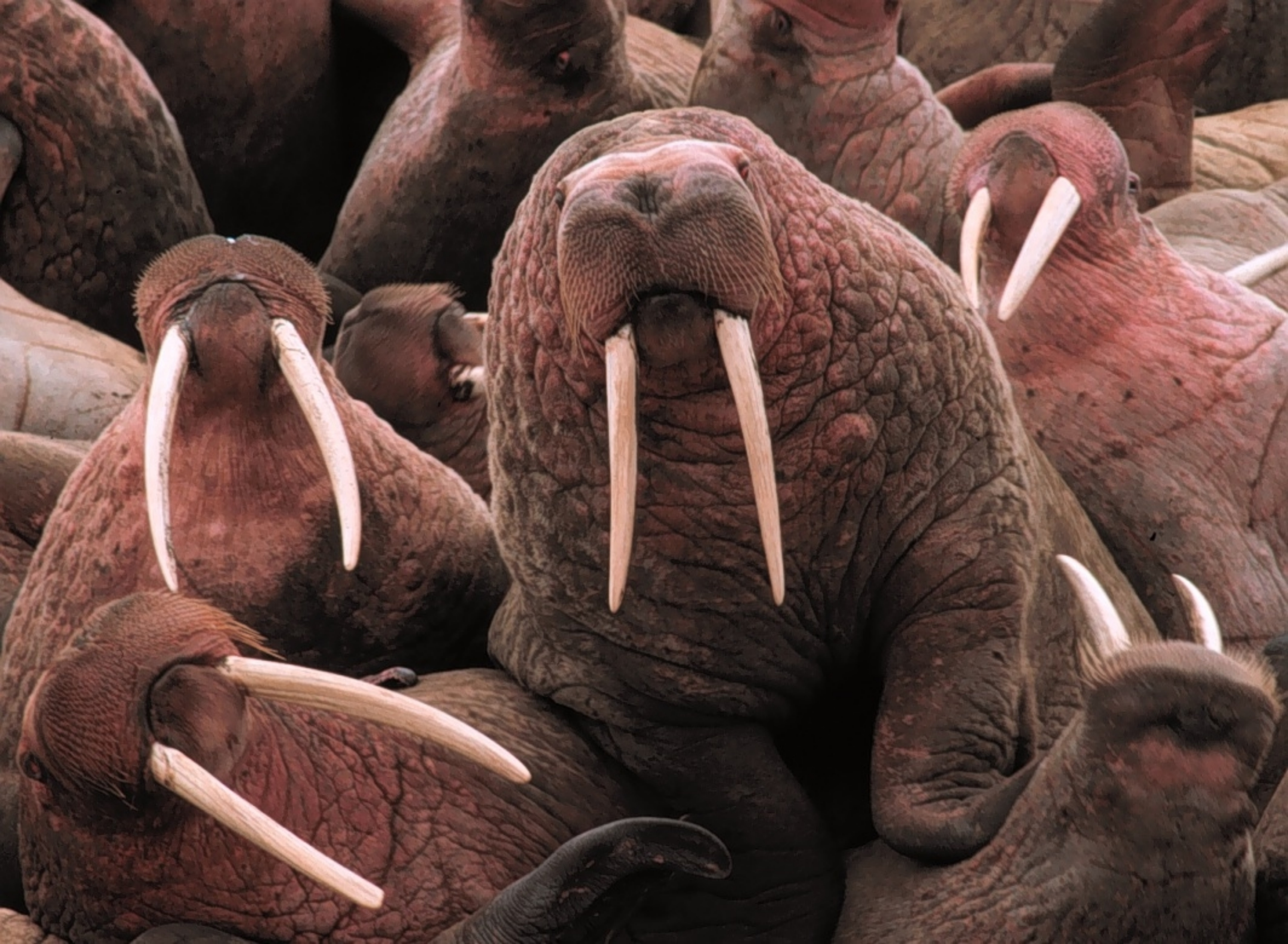 Pacific Walrus utilize beaches around Cape Peirce as haulout areas on which to rest between feeding forays. These beaches are surrounded by sheer cliffs affording the walrus protection from predators. U.S. Fish and Wildlife, Togiak National Wildlife Refuge